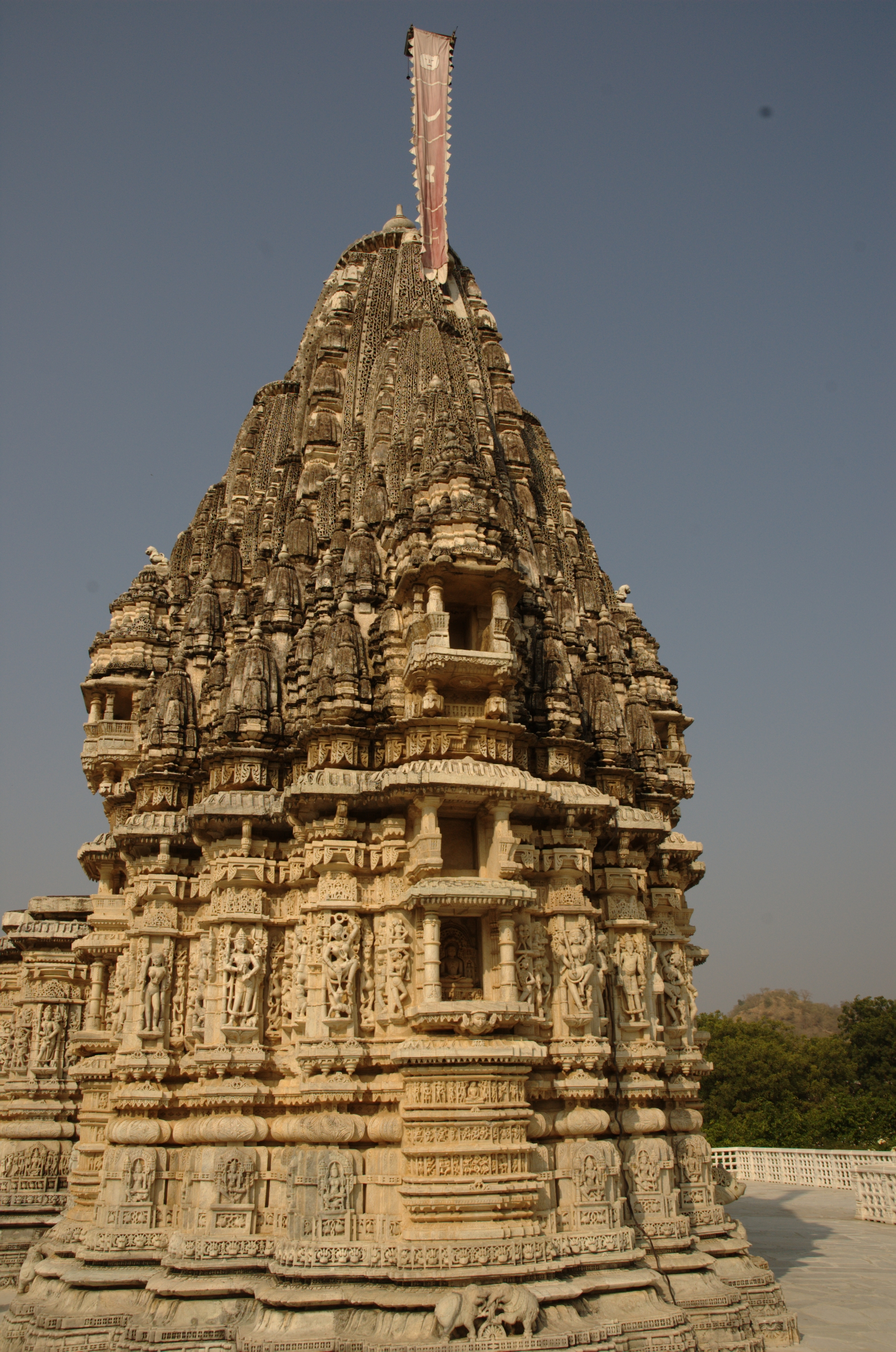 Parshvanatha temple in Ranakpur.